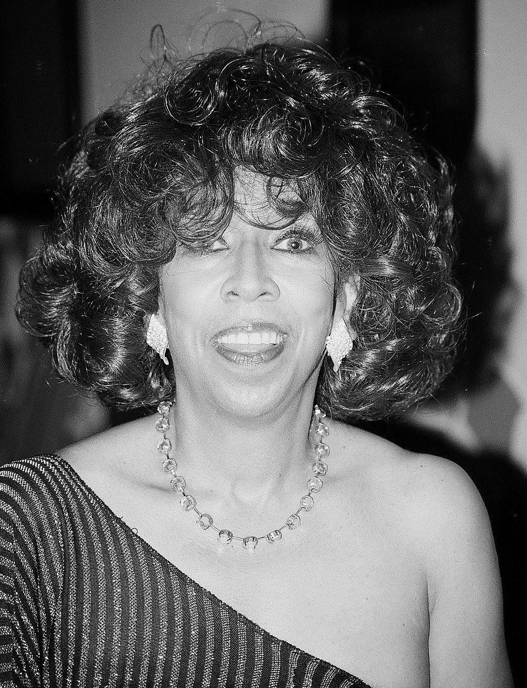 Please forgive 1997 wrong date ( as I uploading a massive archive...bit by bit ) it is from August 3, 2002 Baltimore M.D.